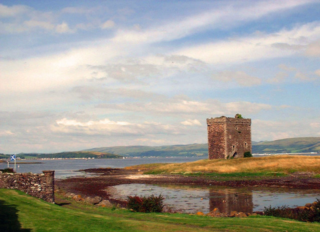 Wee Cumbrae Castle The castle on the Island of Little Cumbrae. The castle was built in 1527, and was made uninhabitable by Cromwellian forces in 1651. It is a square keep, and is said to have been built originally to prevent deer poaching.